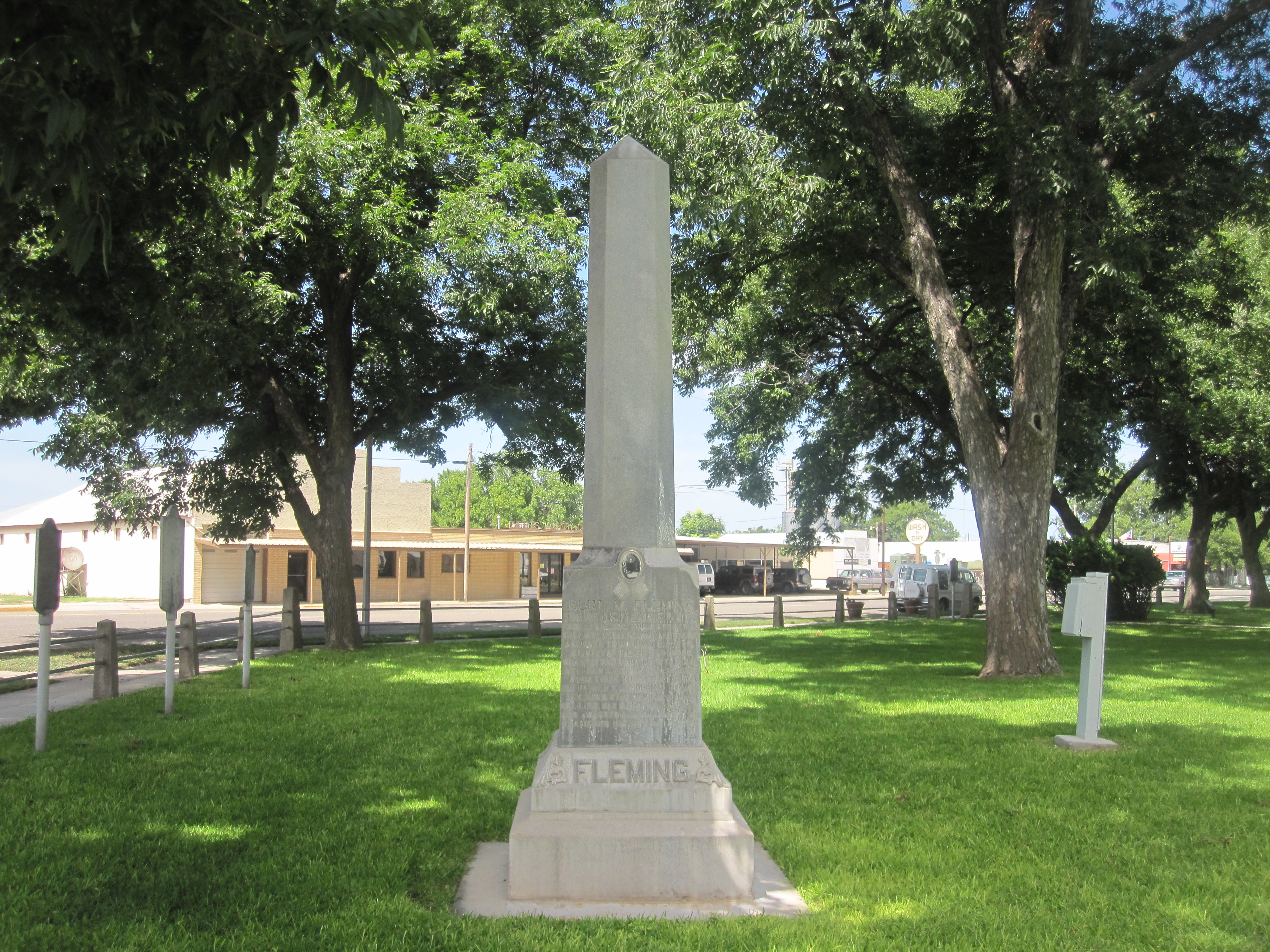 I took photo with Canon camera in Junction, TX.